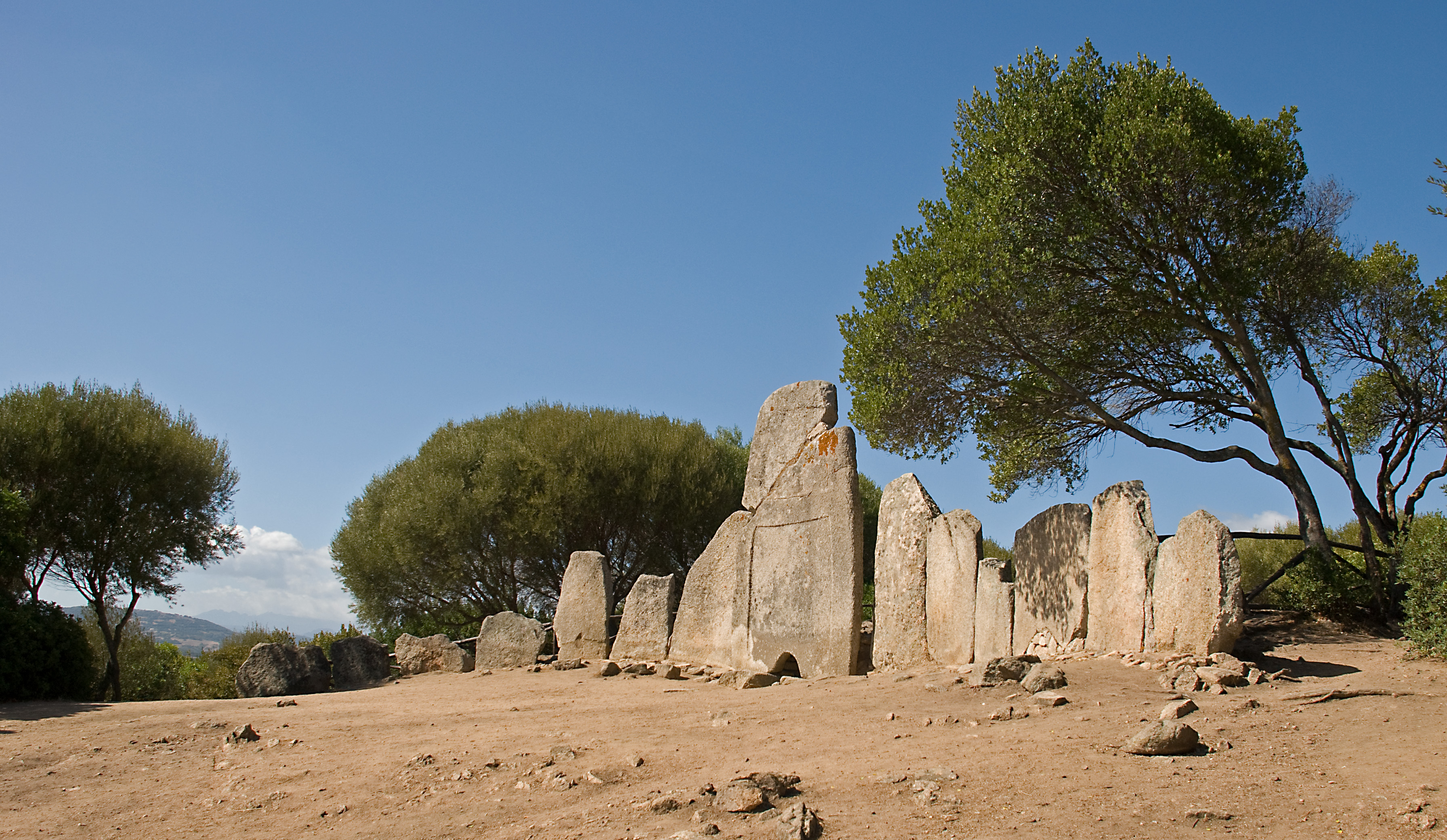 Li Lolghi archaeological site near Arzachena, Sardinia, Italy